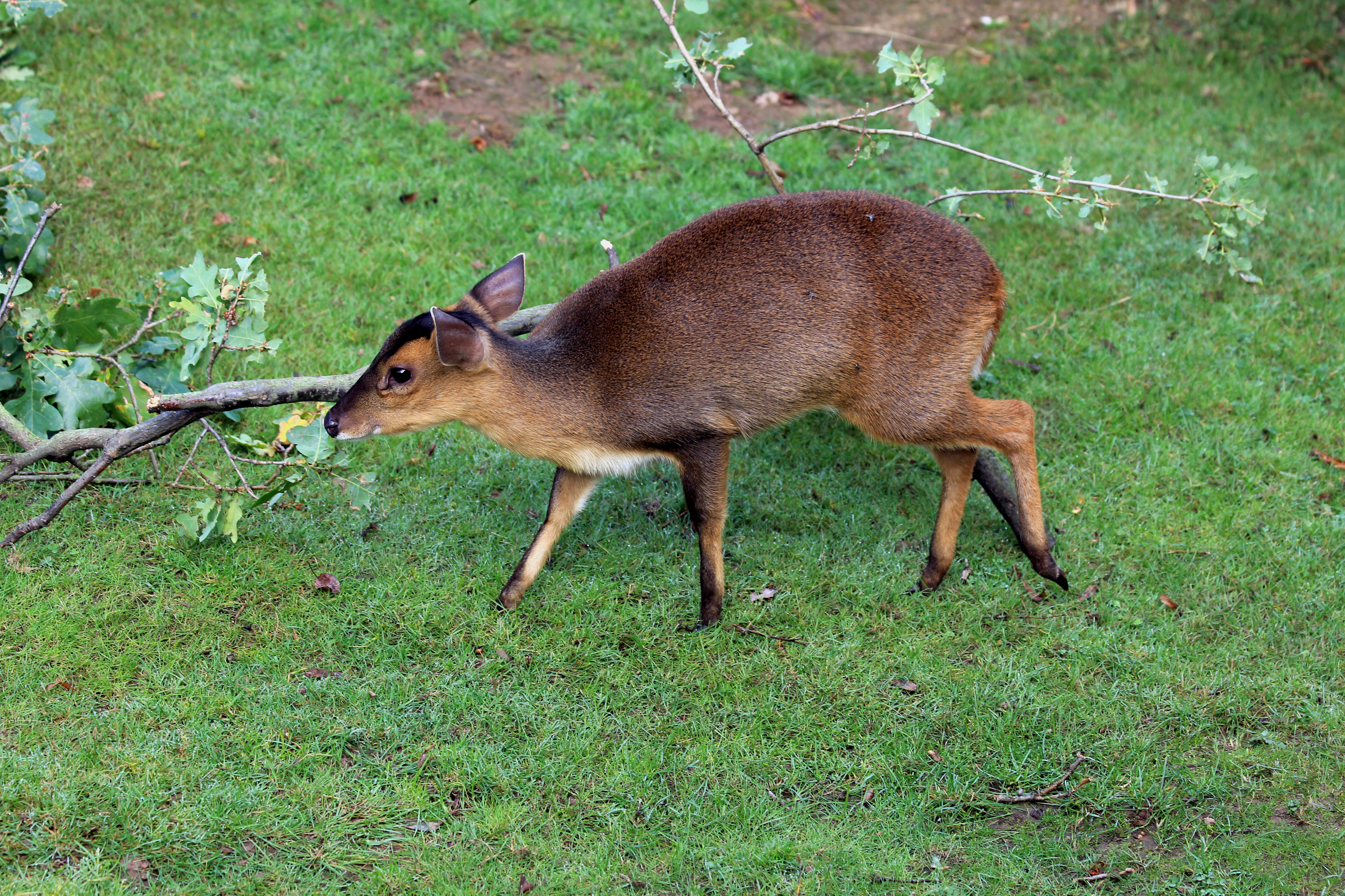 Reeves's Muntjac (Muntiacus reevesi) in Prague Zoo, Czech Republic